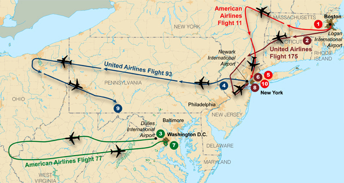 Flight paths of the four hijacked planes used in the terrorist attacks on September 11, 2001: 1 7:59 a.m. American Airlines Flight 11, a Boeing 767, departs Logan Airport bound for Los Angeles with 81 passengers and crew of 11. 2 8:14 a.m. United Airlines Flight 175, a Boeing 767, also departs Boston for Los Angeles with 56 passengers and crew of nine. 3 8:20 a.m. American Airlines Flight 77, a Boeing 757, departs Washington's Dulles Airport for Los Angeles with 58 passengers and crew of six. 4 8:42 a.m. United Airlines Flight 93, a Boeing 757, leaves Newark for San Francisco with 37 passengers and crew of seven. 5 8:46 a.m. American Airlines Flight 11 crashes into the North Tower of the World Trade Center. 6 9:03 a.m. United Airlines Flight 175 crashes into the South Tower of the World Trade Center. 7 9:37 a.m. American Airlines Flight 77 crashes into the West side of the The Pentagon. 8 9:59 a.m. The South Tower collapses. 9 10:03 a.m. United Airlines Flight 93 crashes in Shanksville, Pennsylvania, 80 miles southeast of Pittsburgh. 10 10:28 a.m. The North Tower collapses.